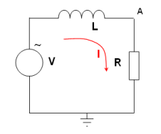 AC source in series with an inductor and a resistor. 2006